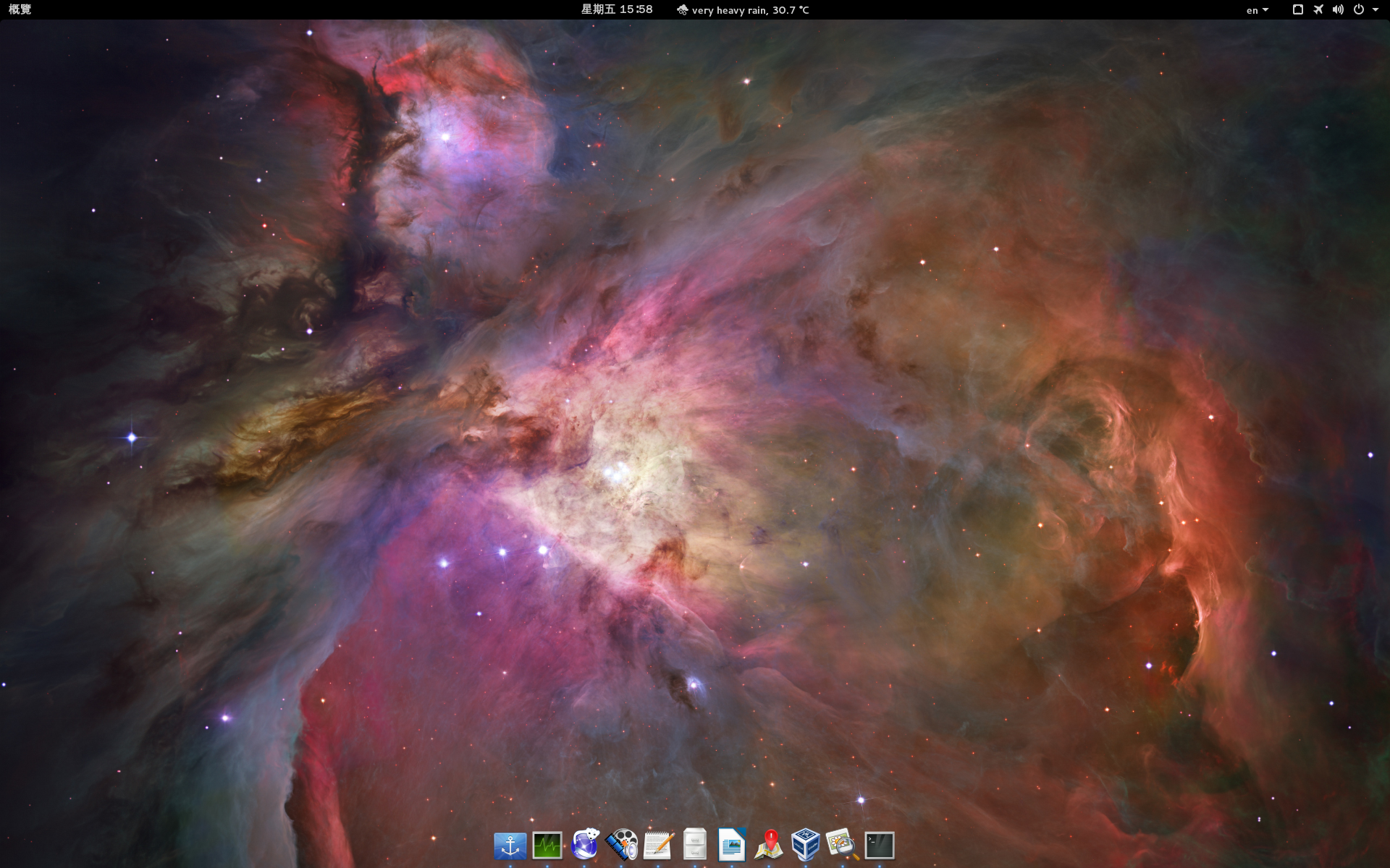 docky on Gnome Shell of Gnome 3, Debian GNU/Linux